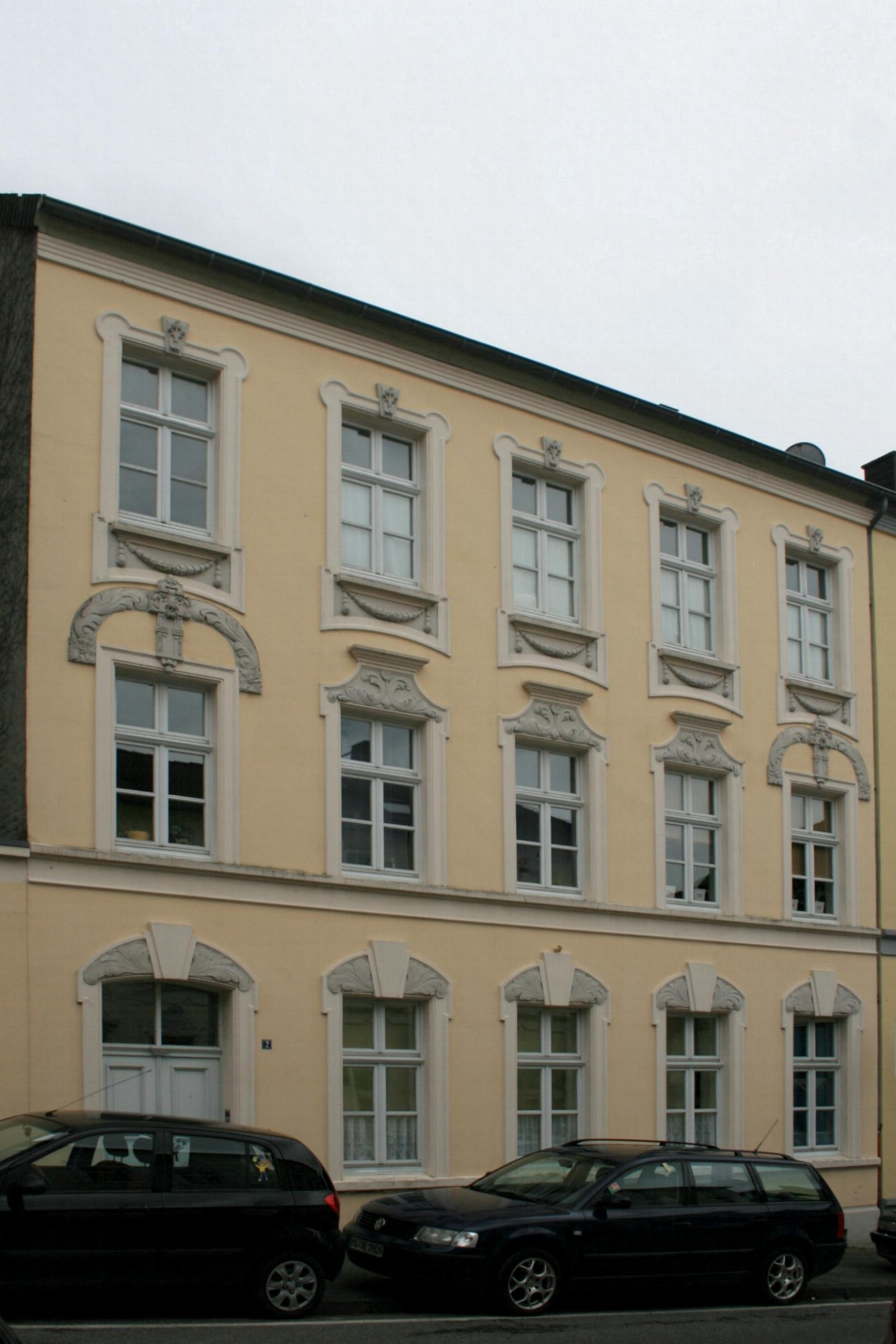 Cultural heritage monument No. A 007 in Mönchengladbach